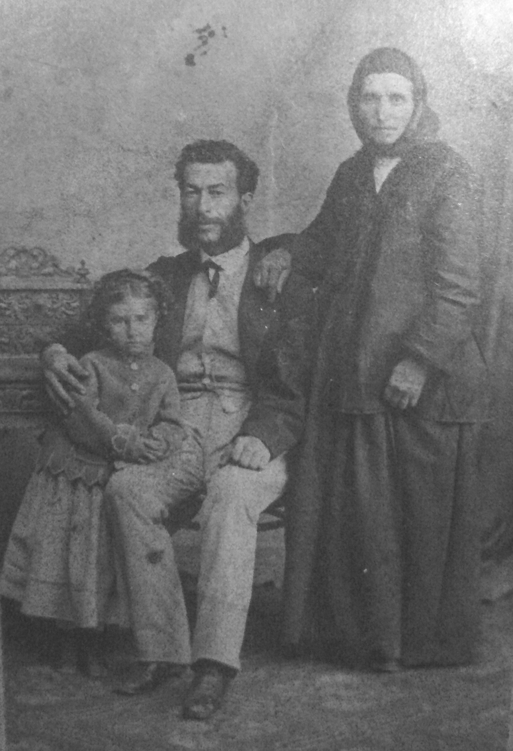 Hristo Botev's comrade David Todorov (1834-1876) in a family portrait with his daughter Maria and his mother. Exhibit of the Vratsa History Museum